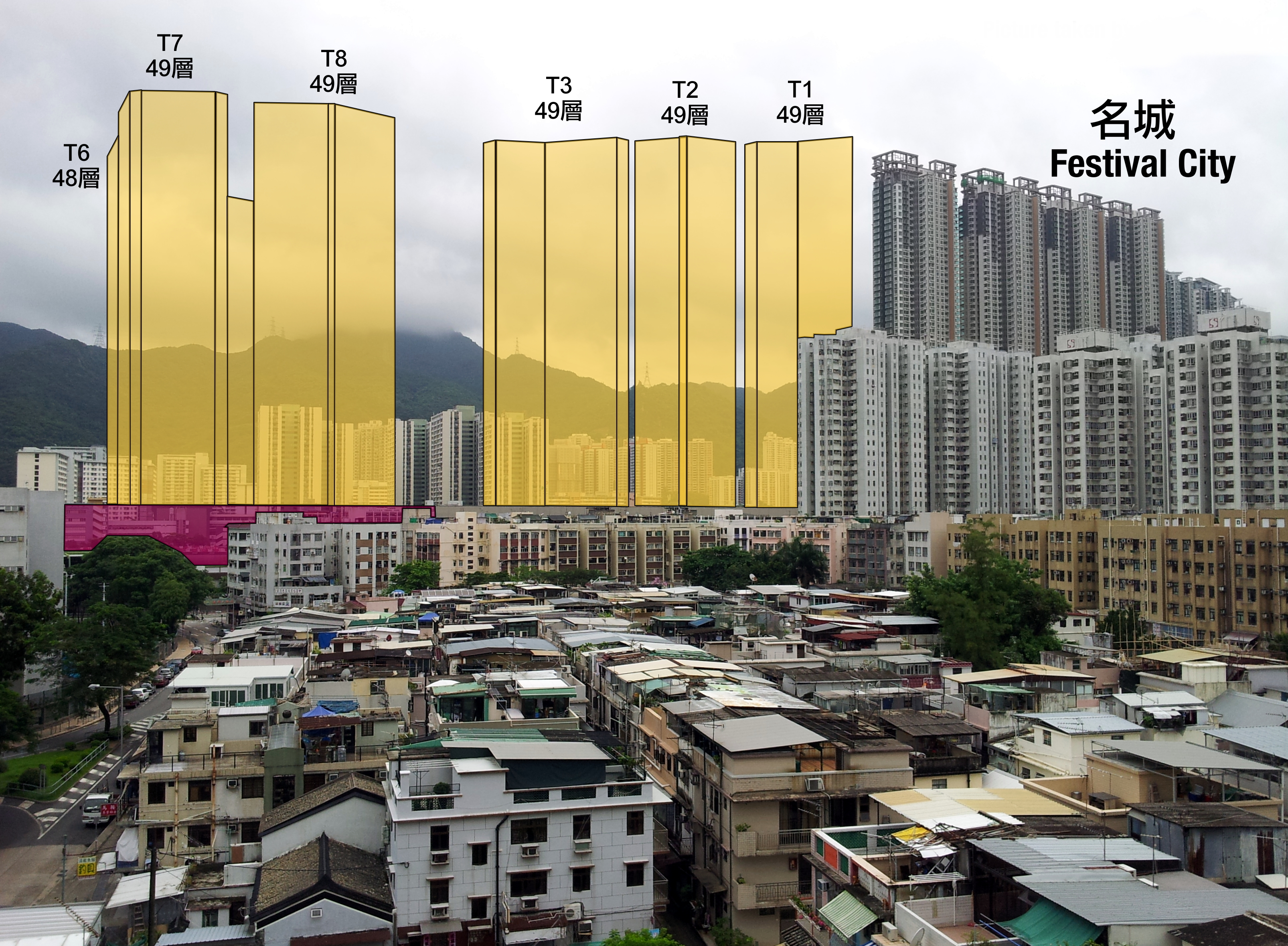 Tai Wai Station Development Site Concept Art